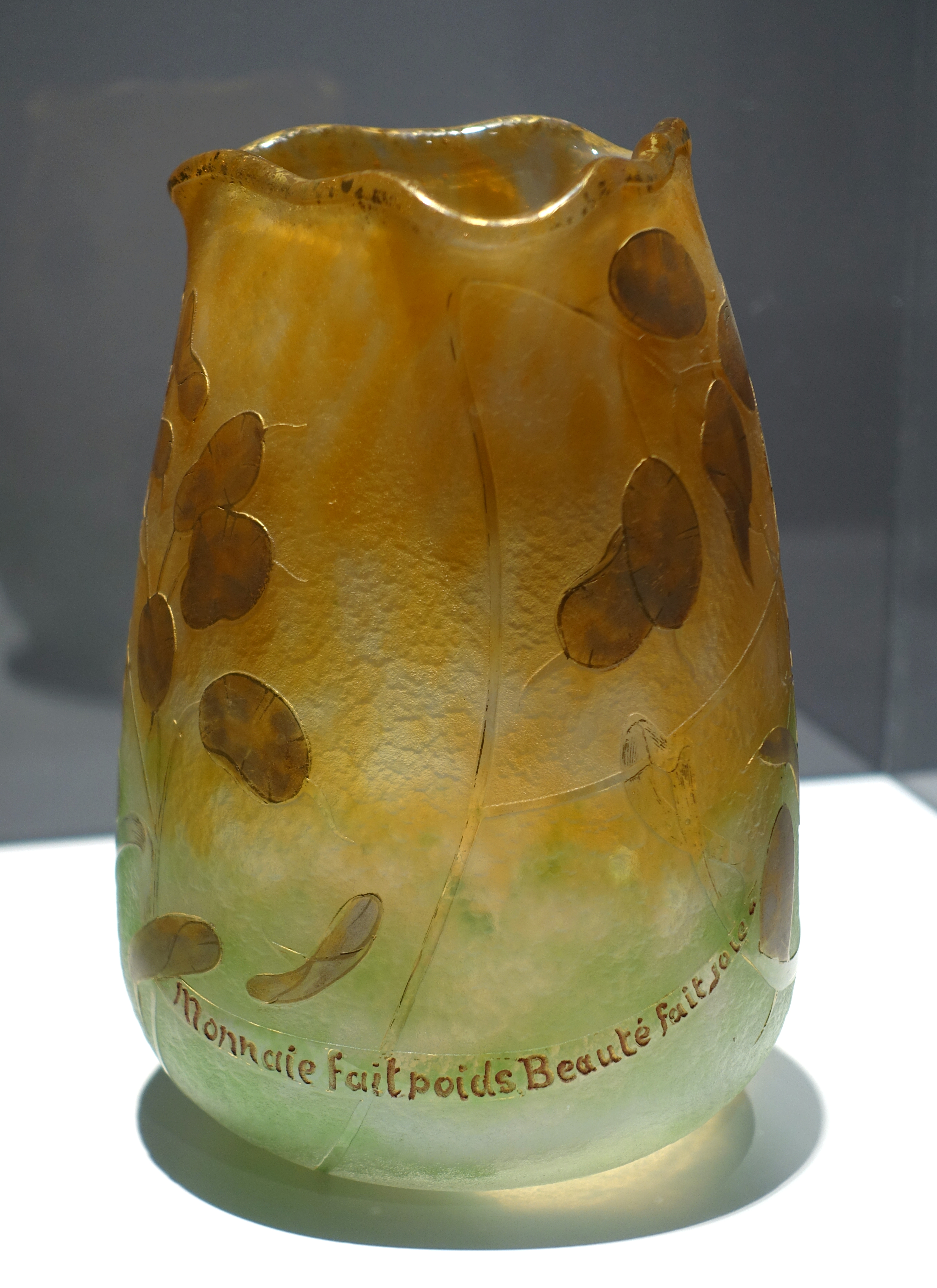 Exhibit in the Bröhan Museum, Berlin, Germany. This work is in the public domain because the artist died more than 70 years ago.